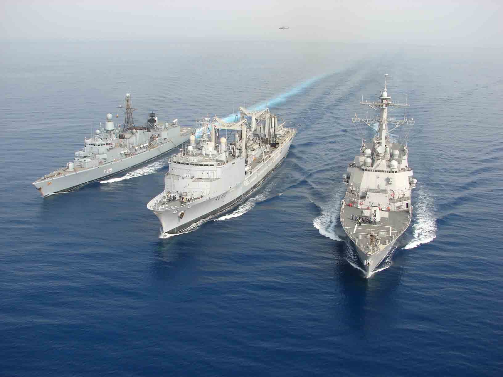 From left, German navy frigate FGS Emden (F 210), French navy tanker FS Marne (A 630) and guided-missile destroyer USS Shoup (DDG 86) conduct a replenishment at sea June 2, 2008, in the Arabian Sea. The coalition ships are deployed to the Combined Task Force 150 area of operations in support of maritime security operations.